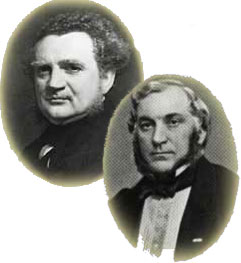 Carl Christian Burmeister (1821-1898) and William Wain (1819-1882), founders of the Danish shipyard and engine manufacturer Burmeister & Wain A/S